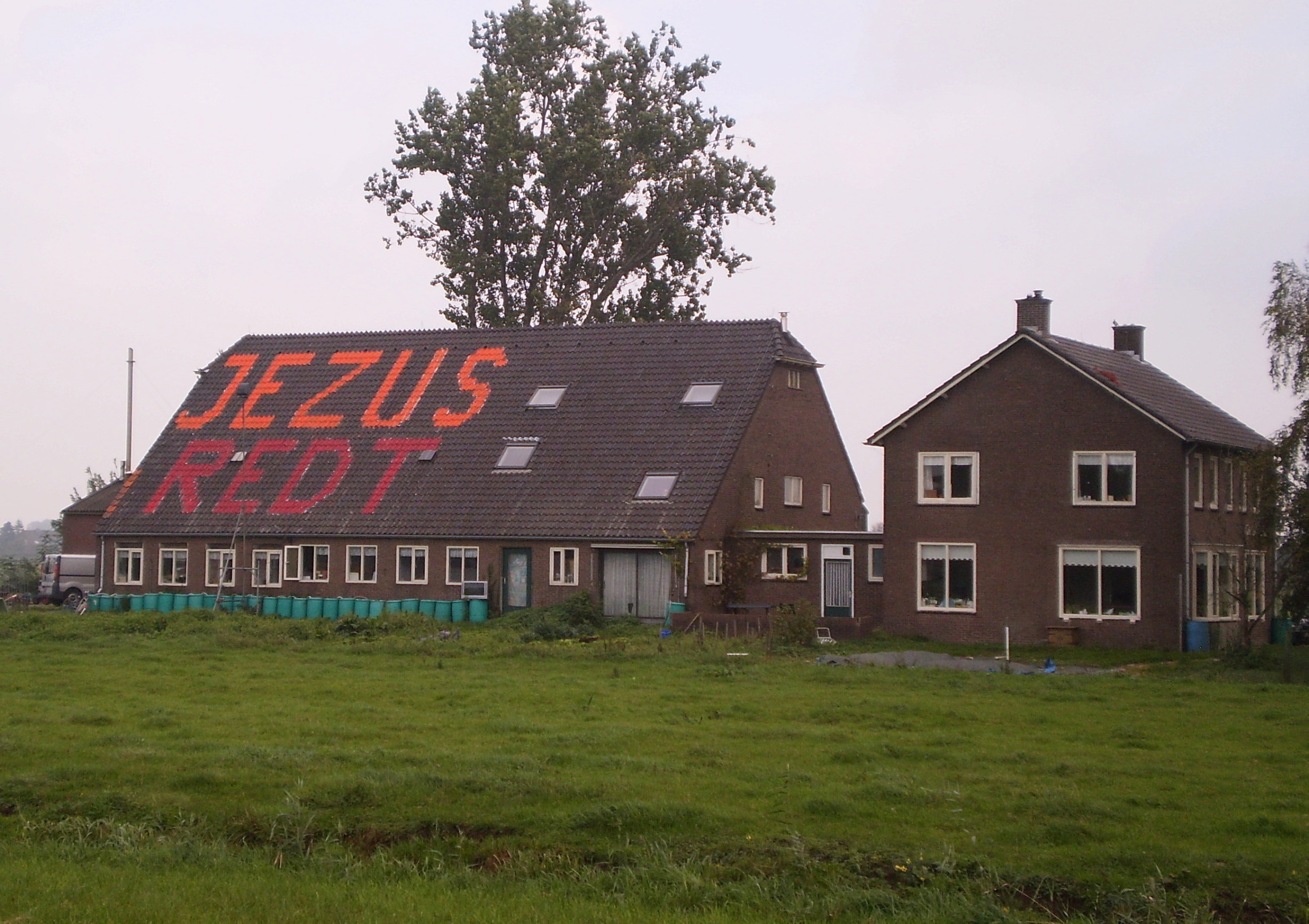 "Jezus redt" (Jesus saves), painted on the roof of Van Ooijen family's farm, Giessenburg, the Netherlands. Formerly, the text was in white. The farmer decided to use new colours after the local authorities had ruled the letters were too contrasting and too large.